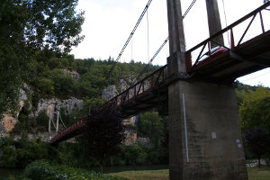 Bridge at Bouzies, France